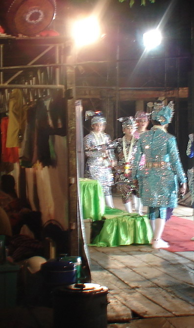 song-and-dance drama Li Ke (Music of Thailand) Location: Wat Khung Taphao Ban Khung Taphao, Khung Taphao subdistrict, Mueang Uttaradit, Uttaradit Province, Thailand.